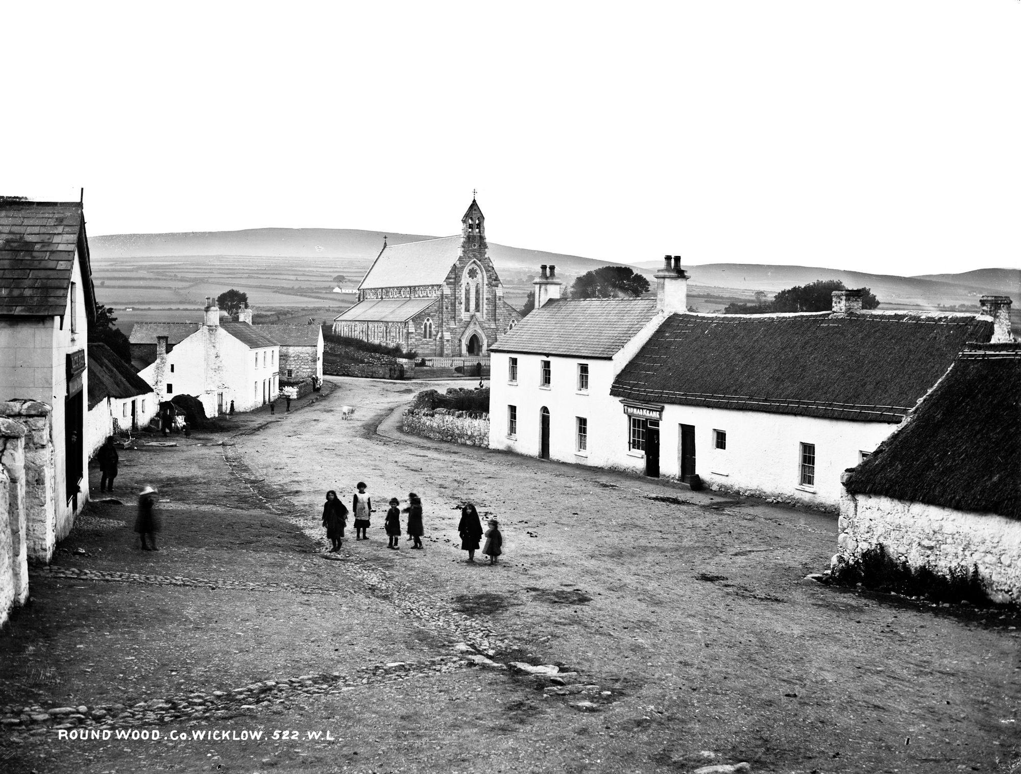 Roundwood as none of us will have seen it. Irelands highest village looks like a tiny hamlet dominated by a fine stone church with maidens dancing at the crossroads (sorry, I got a bit carried away there)! Children in pinnies, a sunhat on display and a soft misty fog on the mountains, Ireland as we dream of it. Given that subject and location are clear, the main discussion today was on date. The general consensus (based on businesses and buildings visible) is that we are likely closer to the first half of the catalogue range (c.1880s) than to the upper bound (c.1900). Interestingly, [/photos/beachcomberaustralia/ BeachcomberAustralia] highlights that this very picture hangs in the lounge of the (now very smartly rennovated) building on the right hand side of the street. Where they have dated it c.1890.... Photographer: Robert French Collection: Lawrence Photograph Collection Date: Catalogue range c.1880-1900. Likely early in range c.1880s NLI Ref: L_ROY_00522 You can also view this image, and many thousands of others, on the NLI’s catalogue at